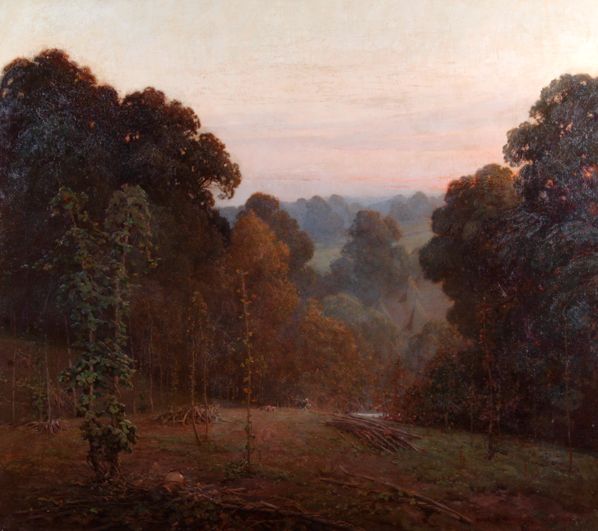 Autumn, Weald of Kent, landscape painting